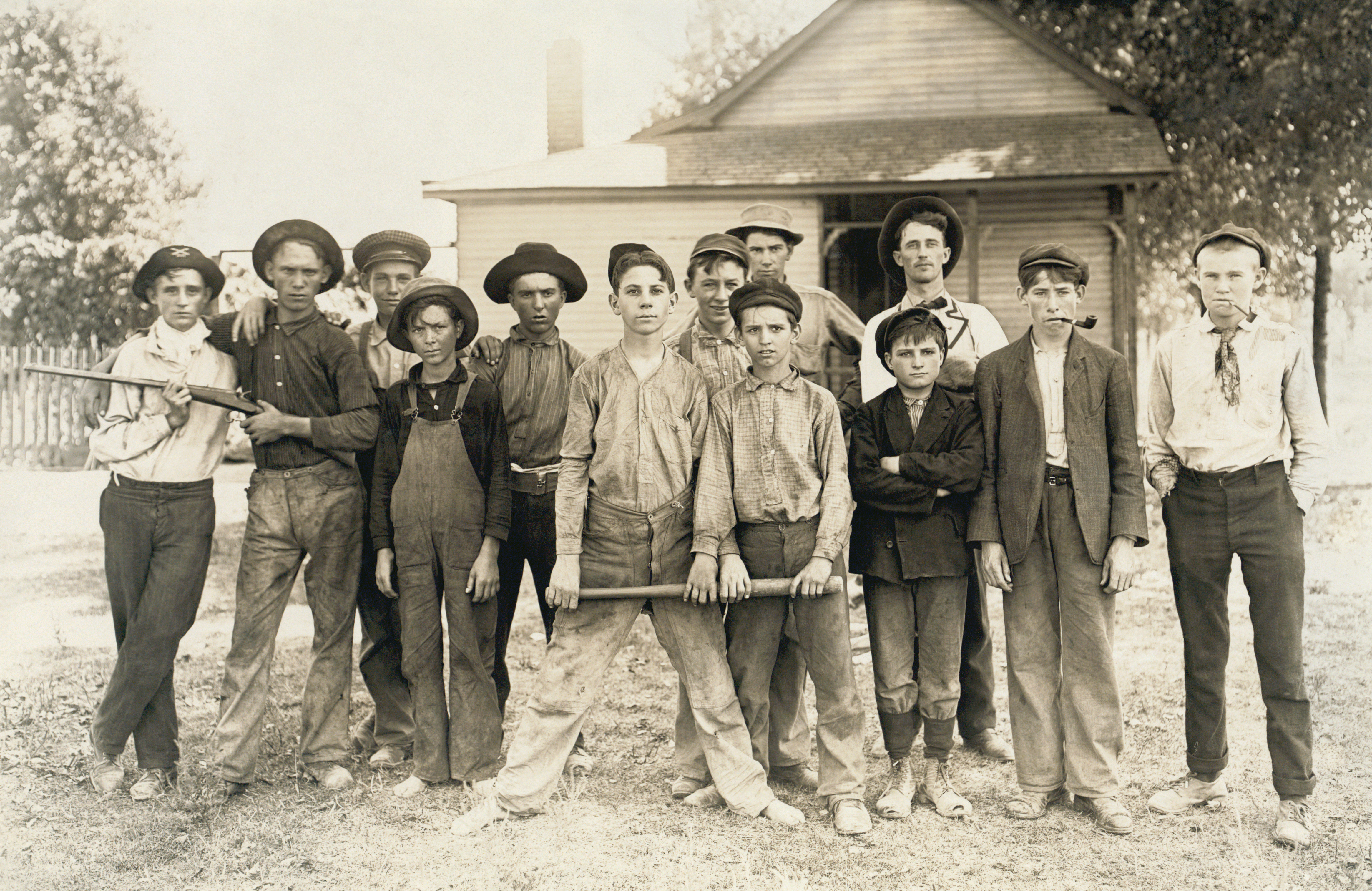 The Ball Team. Composed mainly of glass workers. Indiana.